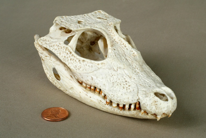 A Dwarf Crocodile (Osteolaemus tetraspis) in the permanent collection of The Children’s Museum of Indianapolis